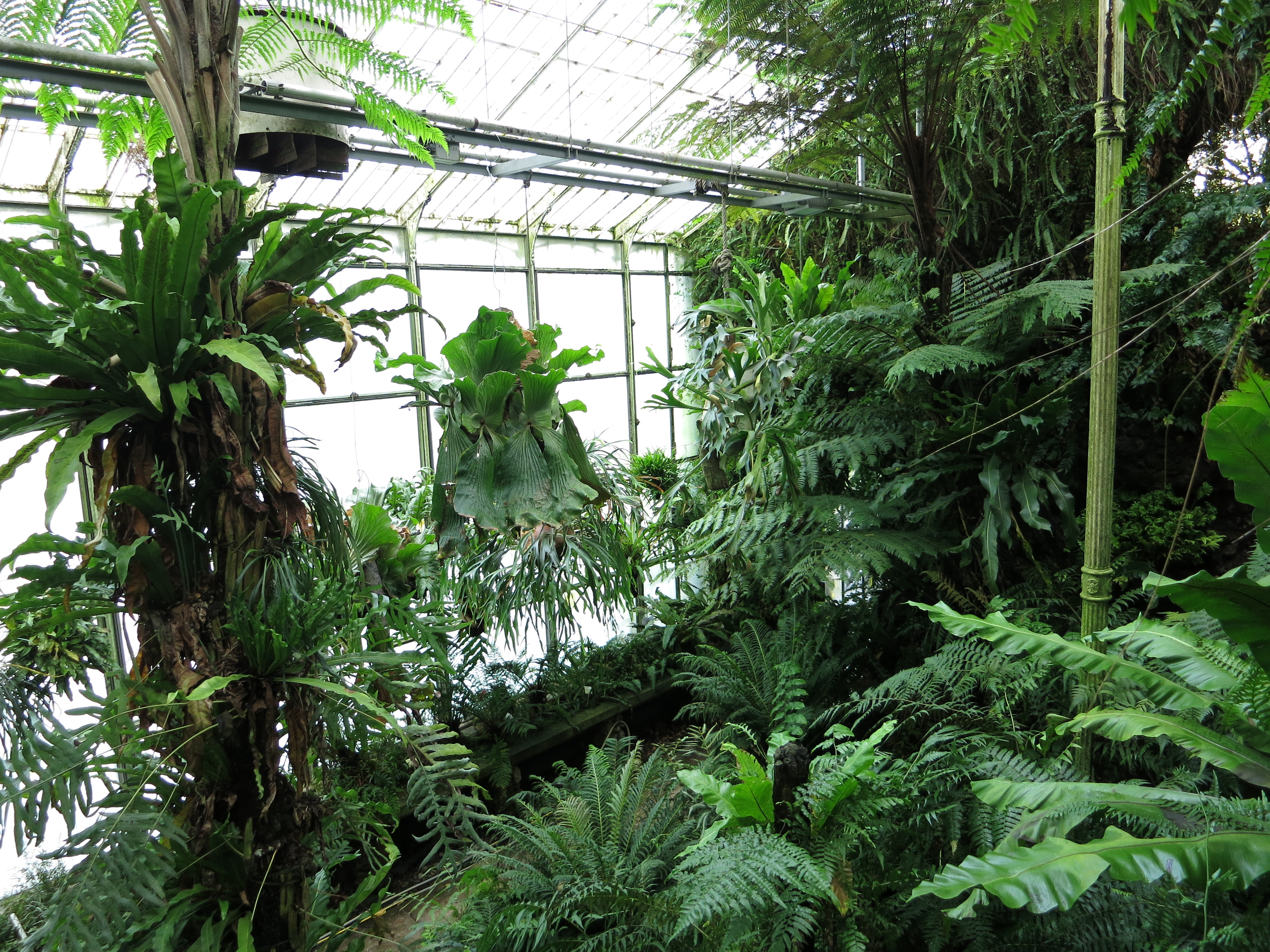 Farn house in the old botanical garden, Goettingen